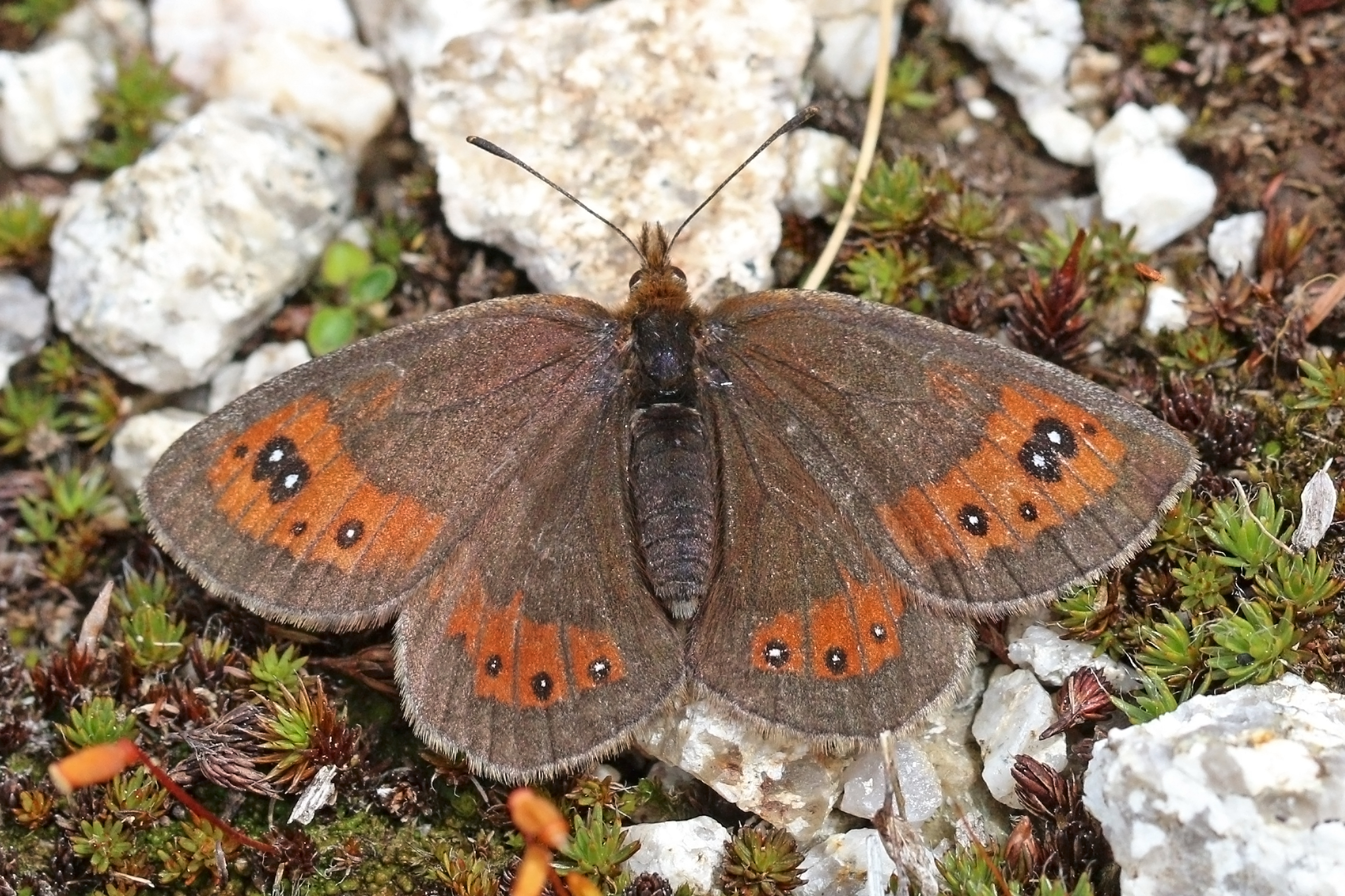 Nicholl's ringlet (Erebia rhodopensis), Yastrebets, Rila Mountains, Bulgaria